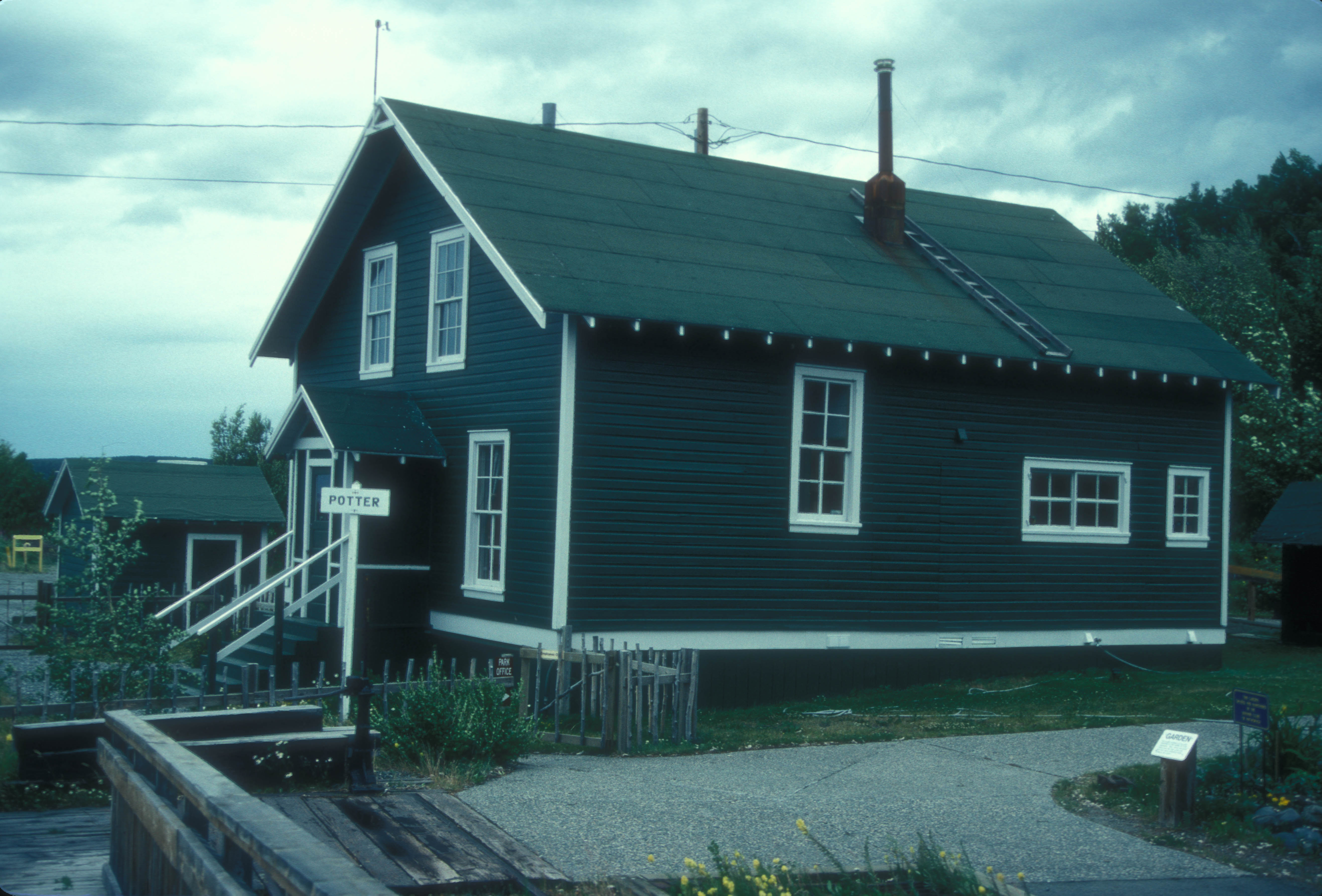 ONLY REMAINING HOUSE BUILT IN 1929 TO SERVE THE RAILROAD WHICH WAS CONSTRUCTED THROUGH HERE.